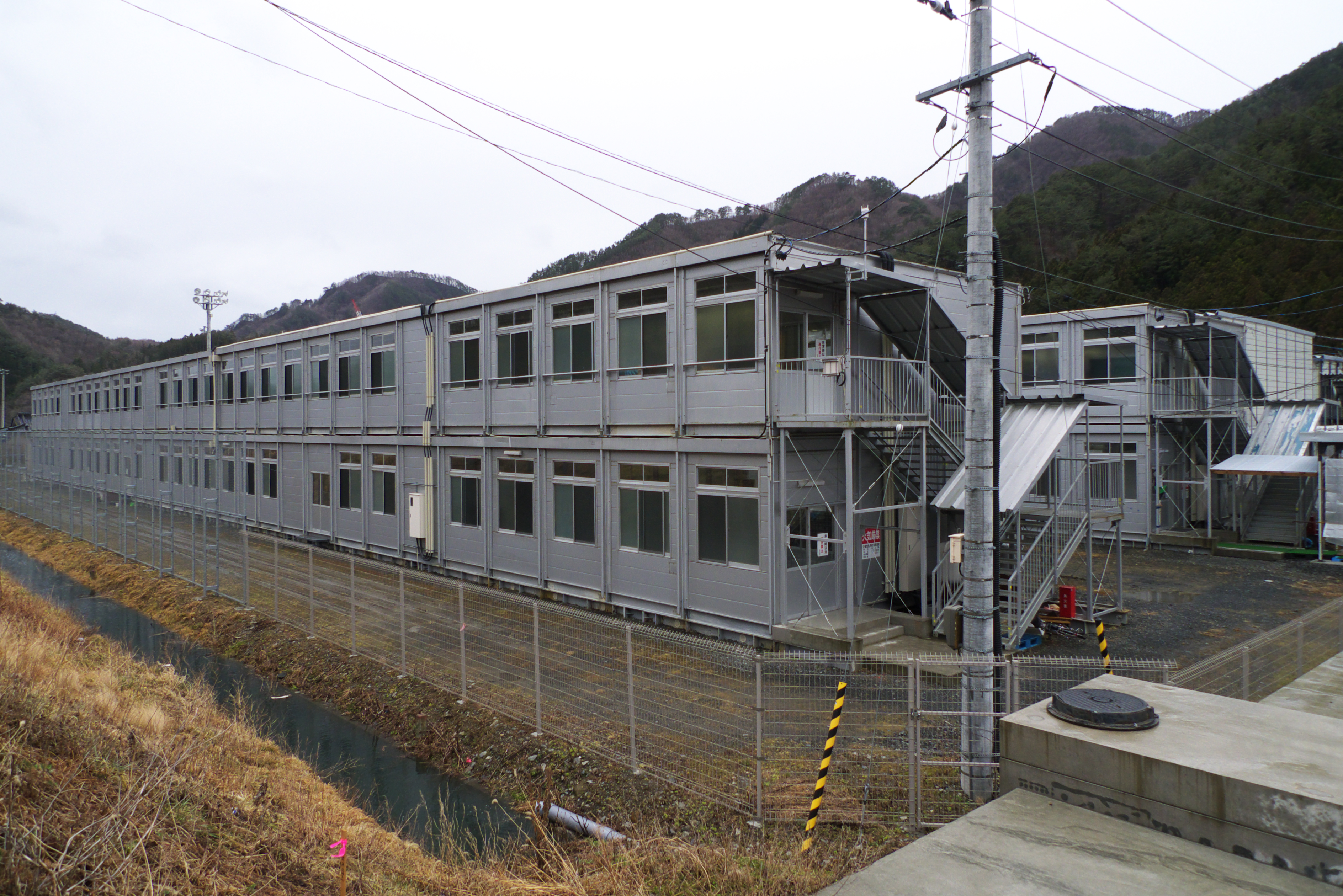 Otsuchi Municipal Otsuchi Gakuen (temporary buildings) in Otsuchi Town, Iwate Prefecture, Japan